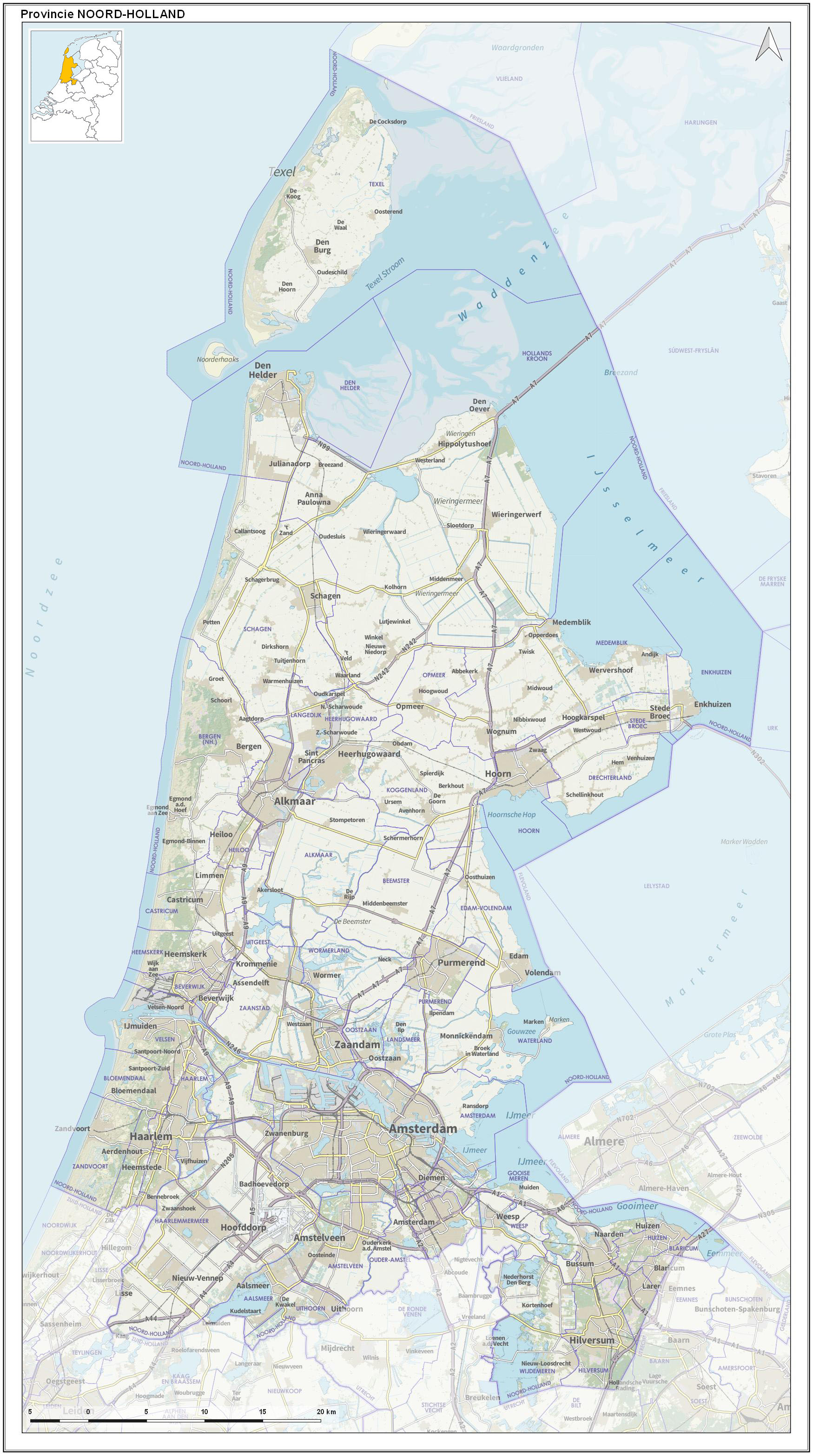 Toographic overview map of the Dutch Province of North Holland as of 2018. Compiled by Jan-Willem van Aalst using Dutch Governmental open data (CC-BY Kadaster) and OpenStreetMap data (CC-BY OpenStreetMap contributors).